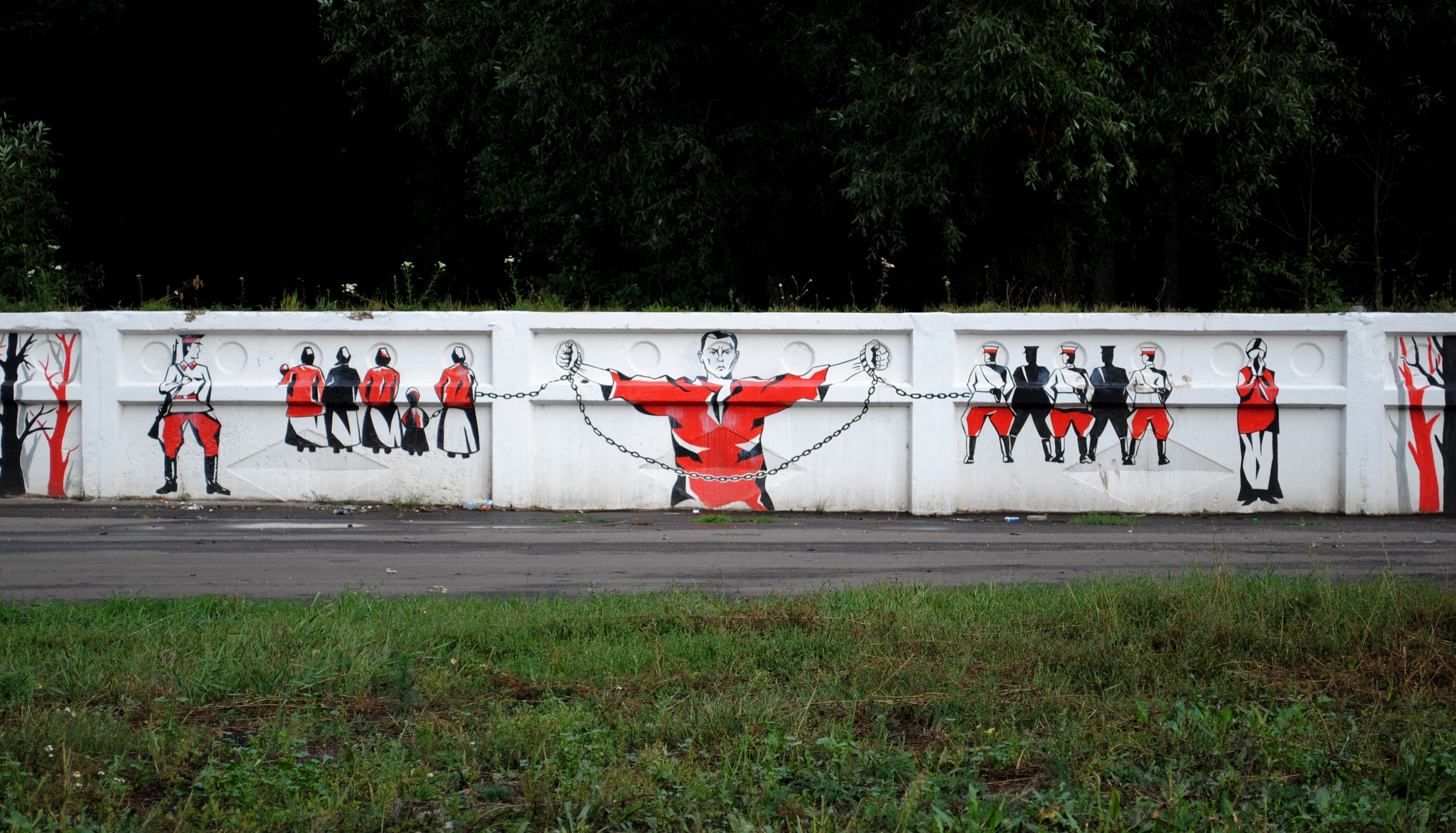 Lipovchik